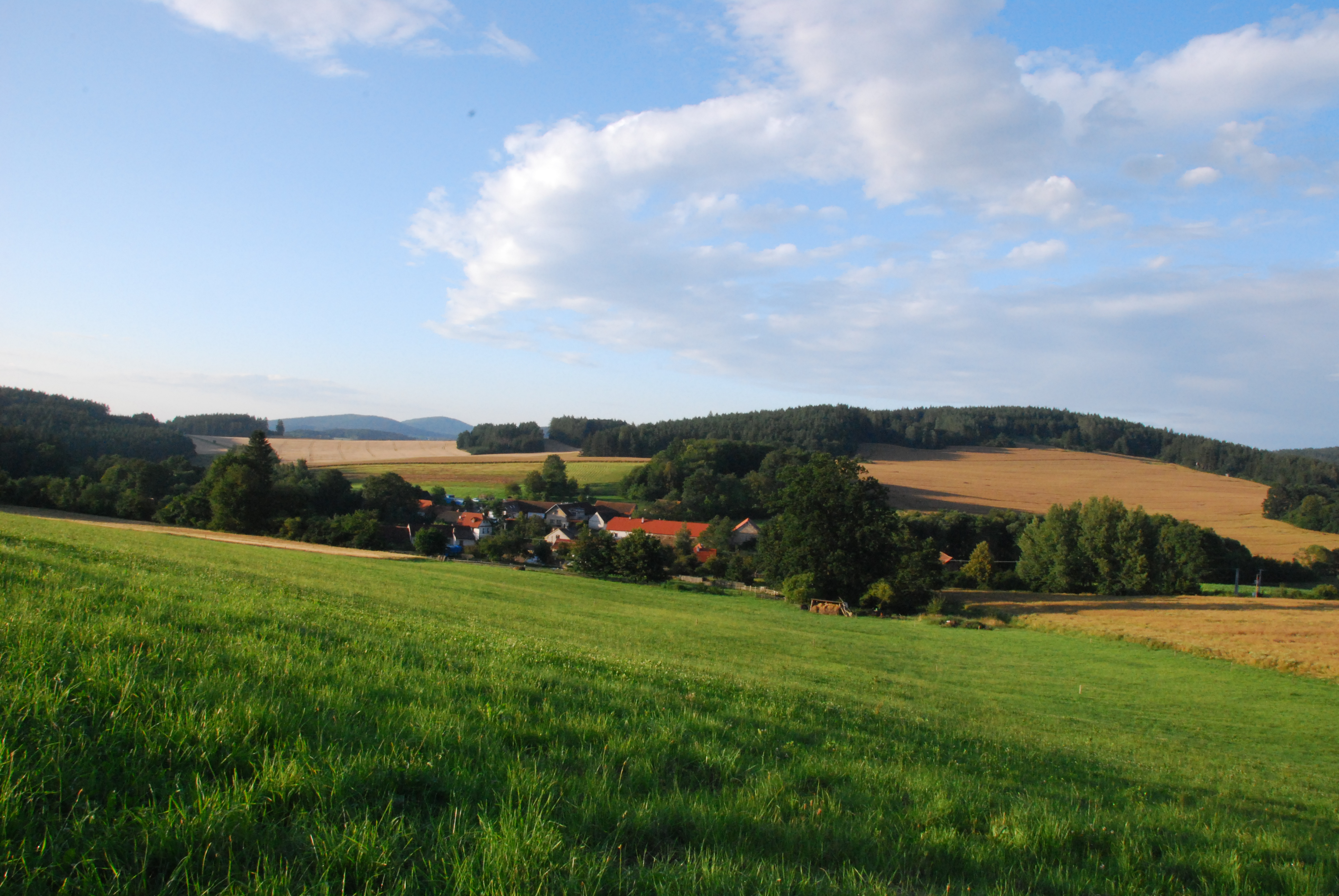 Hrnčíře, small village in Tábor District in the South Bohemian Region